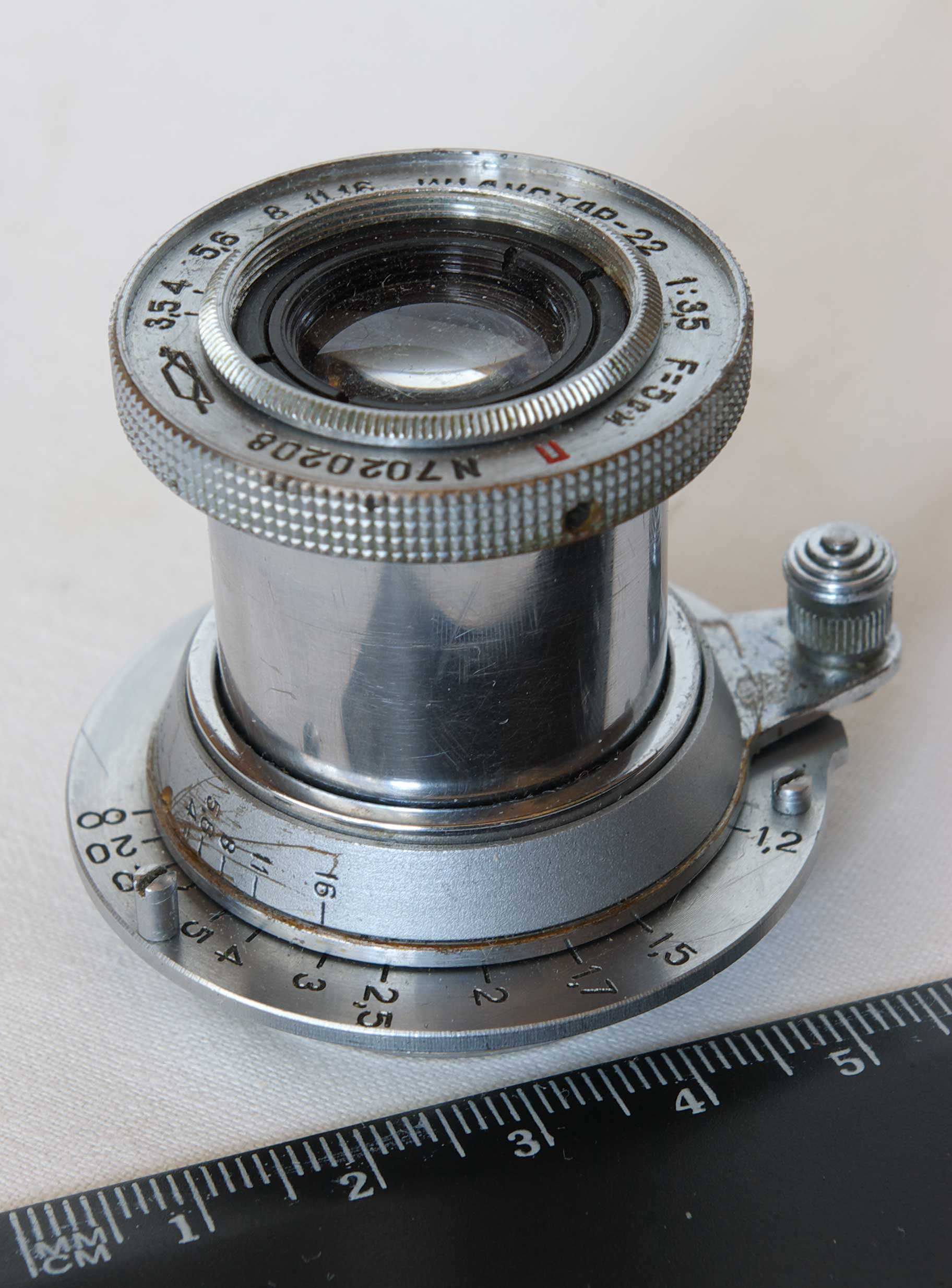 Industar-22 3.5/50 mm folding lens for Leica-mount rangefinder cameras. USSR, KMZ factory.